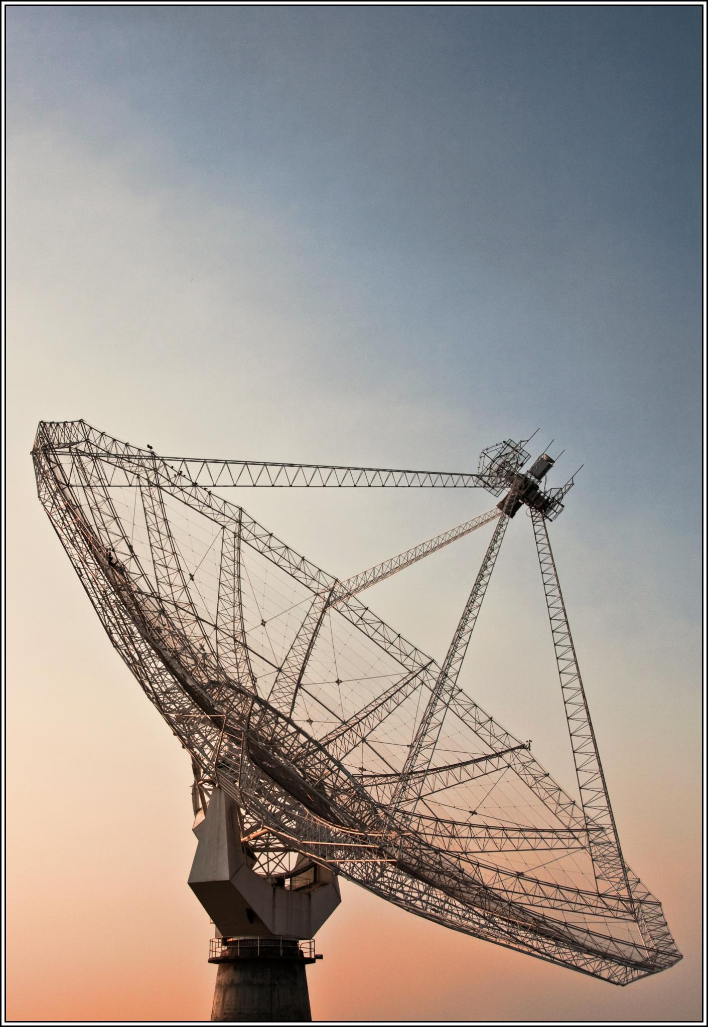 That's one of the antennae of GMRT telescope, Pune, India